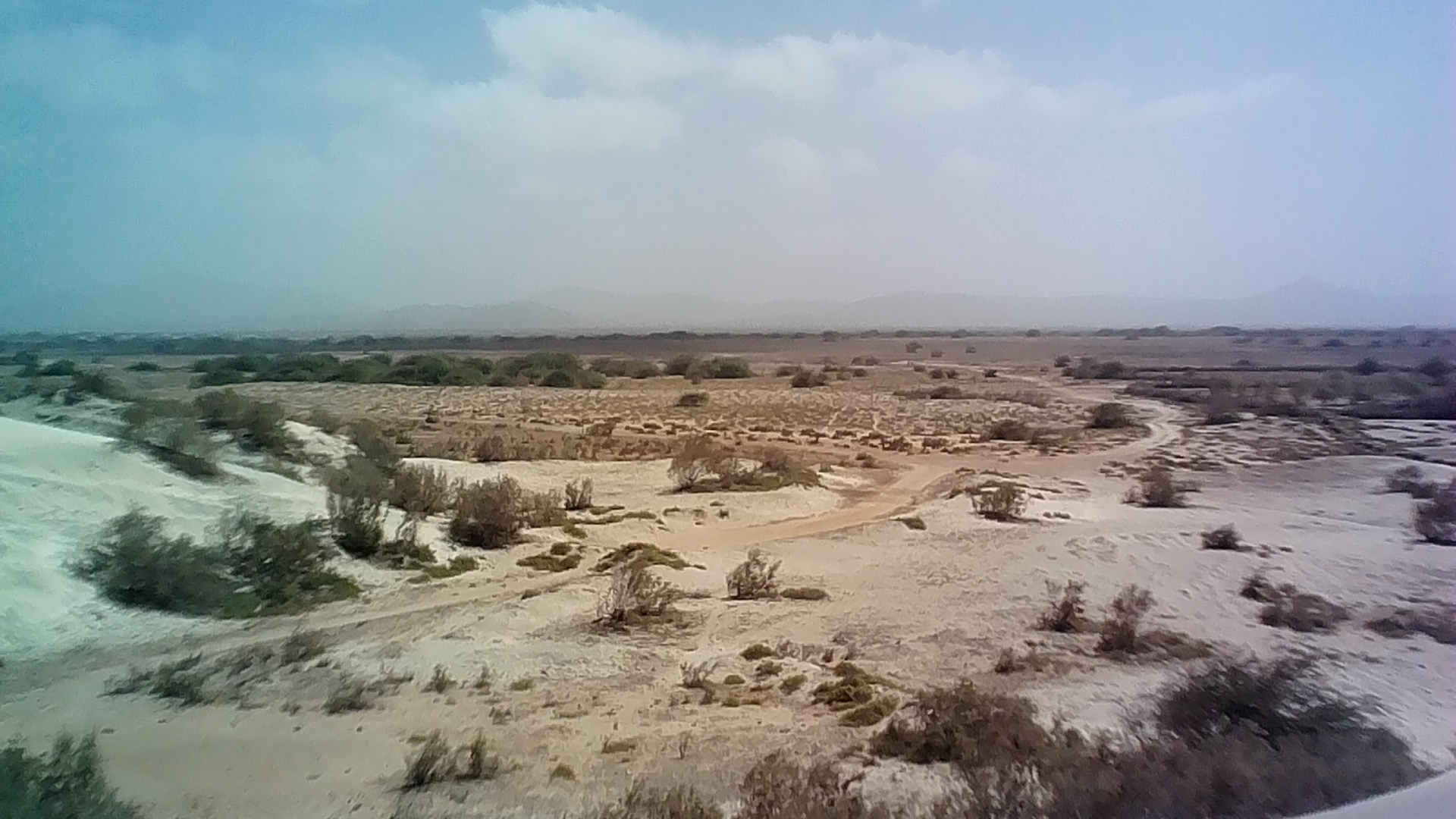 Wilderness near Morrinho village, Maio Island